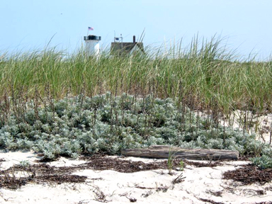 Stage Harbor Lighthouse, Chatham, Massachusetts